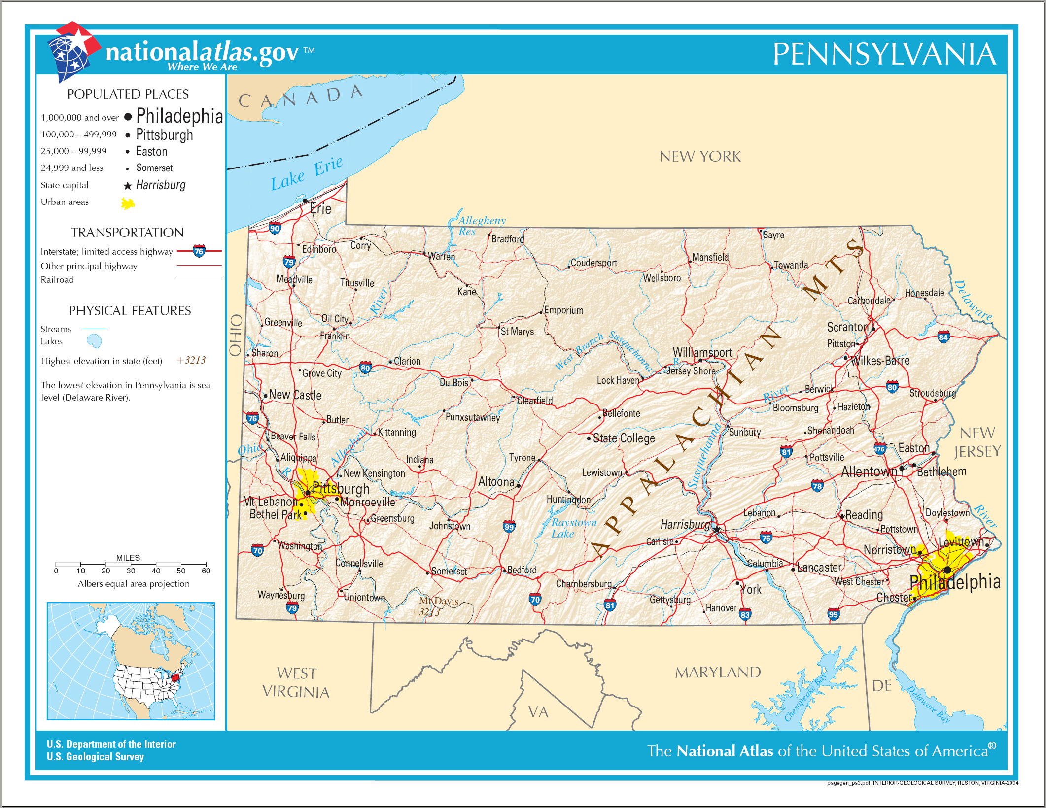 Map of Pennsylvania.